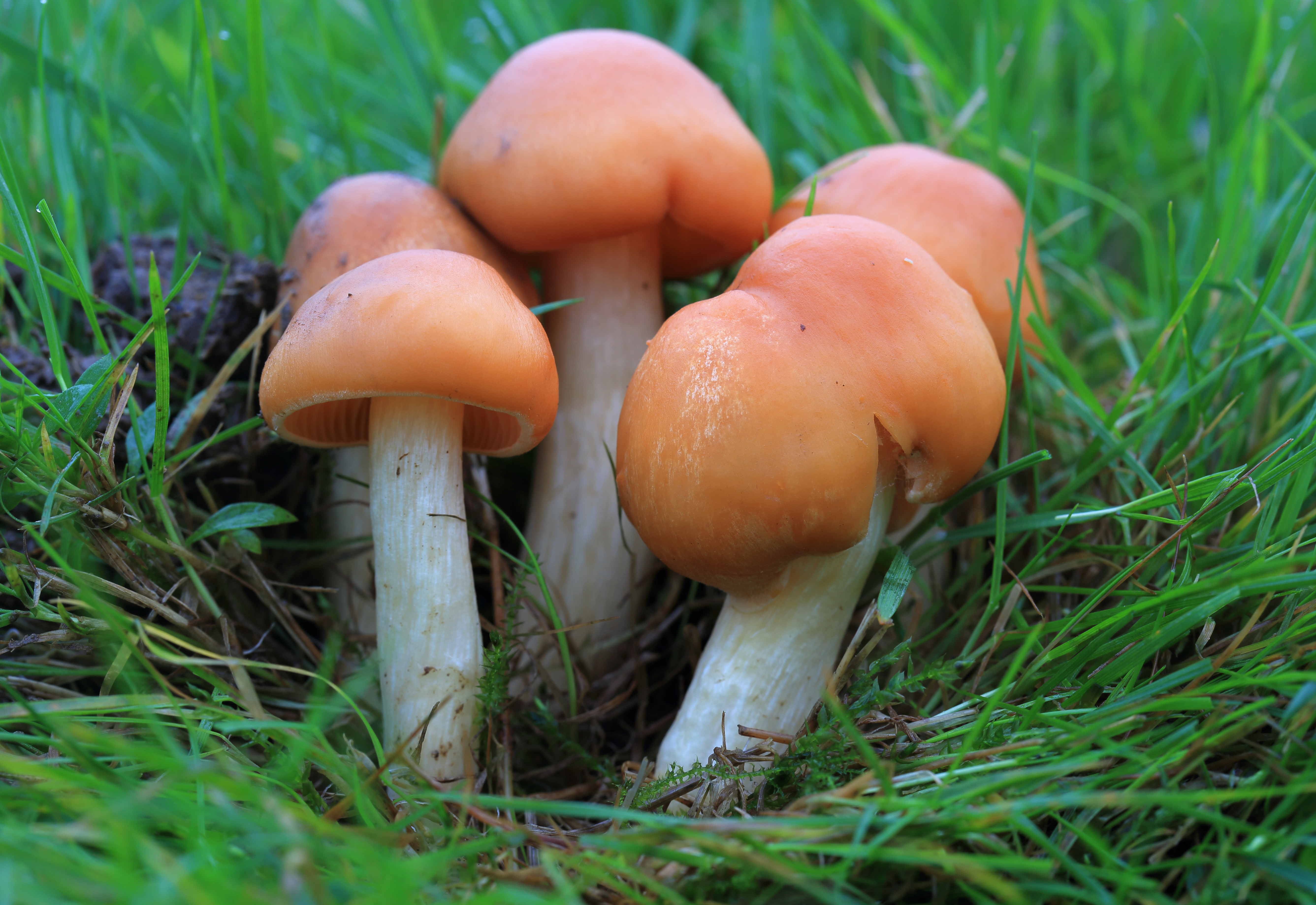 Cuphophyllus pratensis, syn. Hygrocybe pratensis, Meadow Waxcap. Taken in London, UK